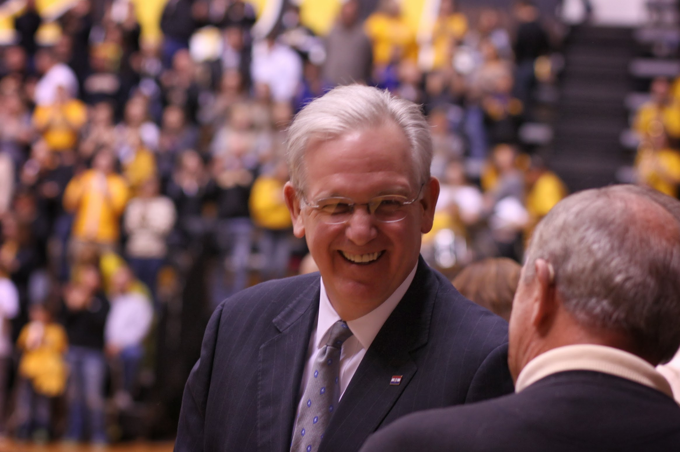 Governor Jay Nixon at Hearnes Center watched the first two of three MU volleyball games at the Hearnes Center